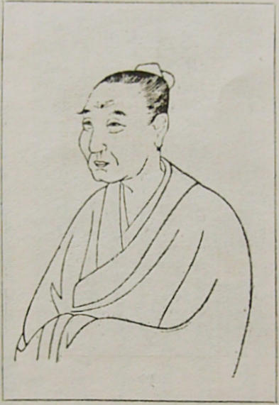 Portrait of Kō Fuyō(1772-1784), seal engraver, Woodblock print, original drawing by Maruyama Ōkyo in 1785]